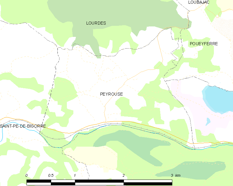 Map of French municipality